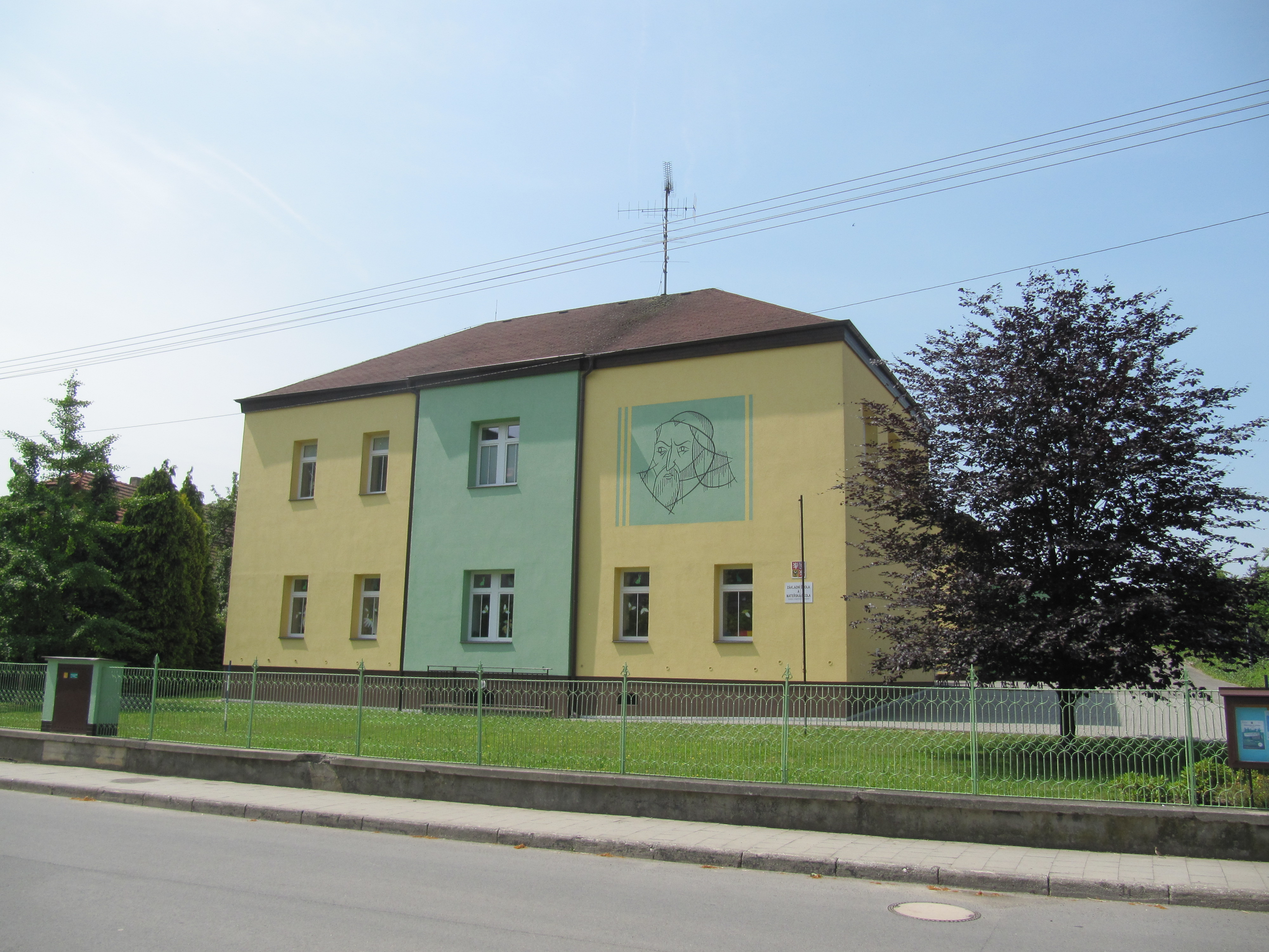 Pustějov, Nový Jičín District, Czech Republic.